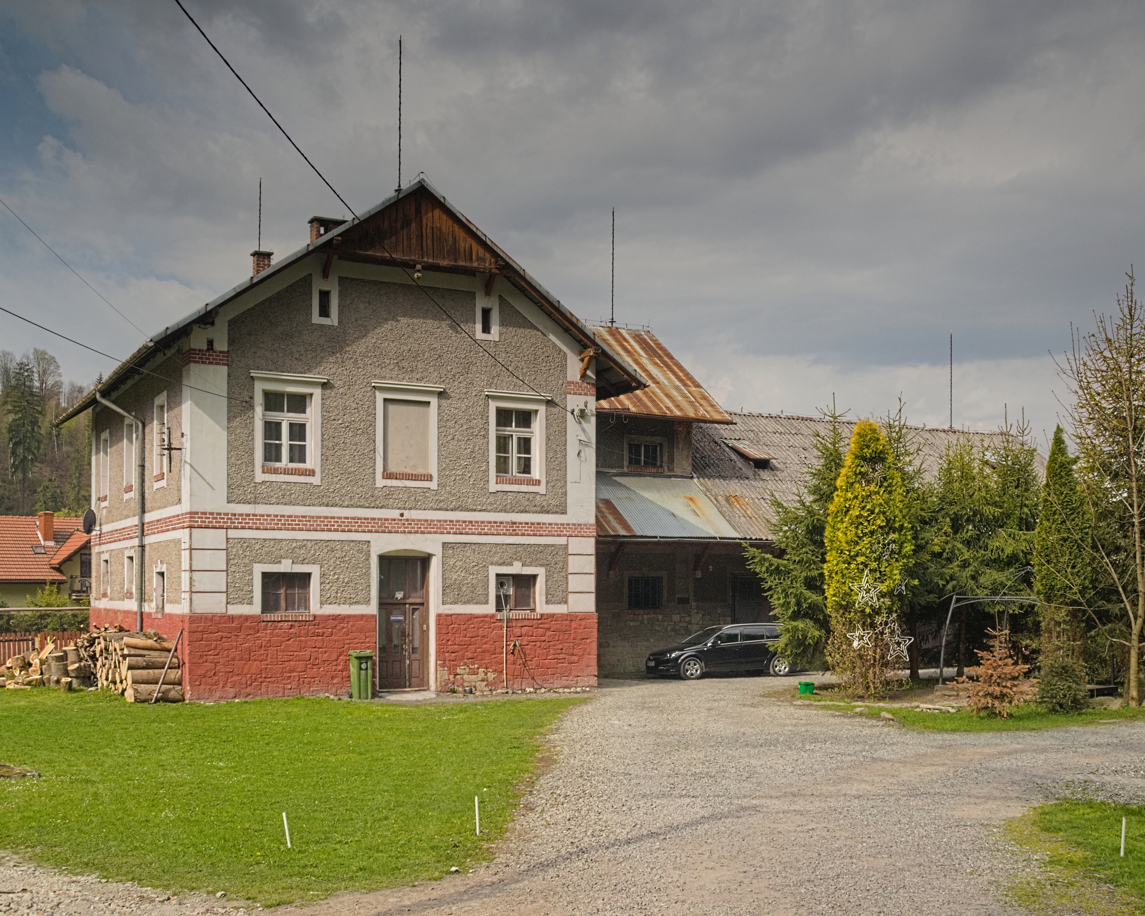 palace stables (ground floor of the taller part) and carriage house with living rooms in Rajcza, 30 Ujsolska street, built before 1915